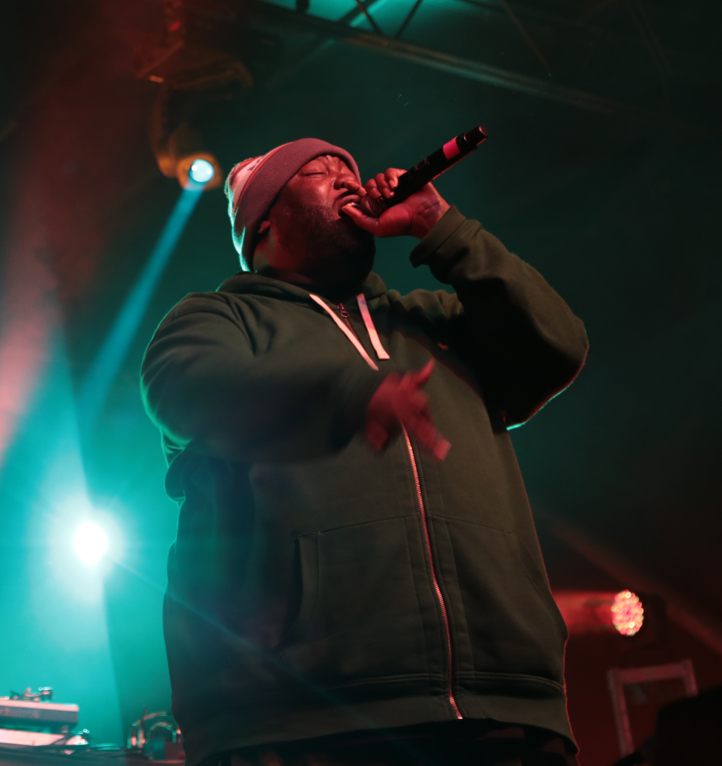 Killer Mike performing as part of Run the Jewels during the 2014 Treefort Music Festival.